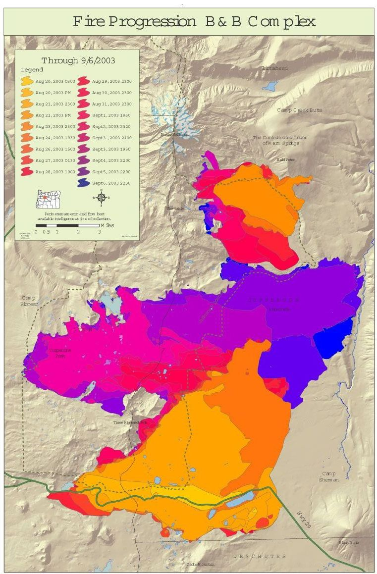 Fire progress map for the B&B Complex Fires in the Cascade Mountains of Oregon from 20 August to 6 September 2003